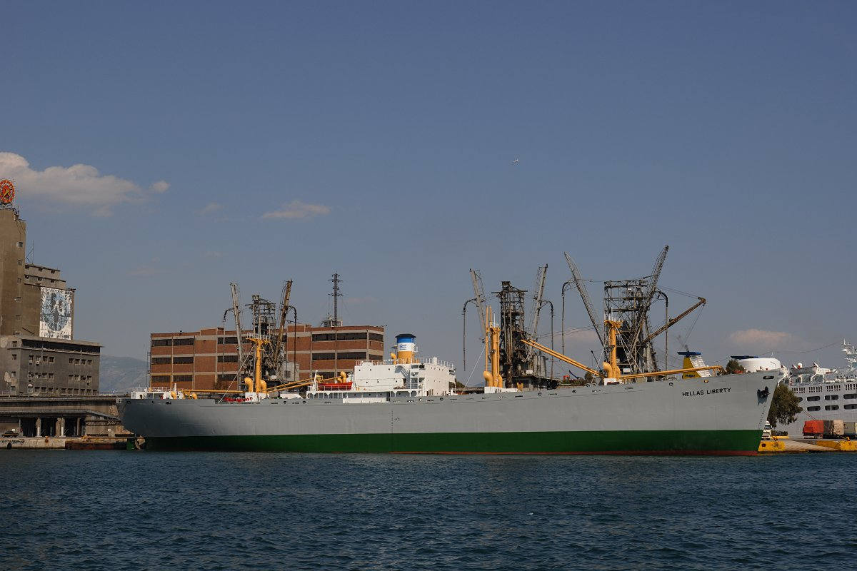 SS Hellas Liberty,IMO: 5025706, ex SS Arthur M. Huddell, one of the last surviving Liberty cargo ships, in Piraeus Harbour, after restoration in Perama shipyards.